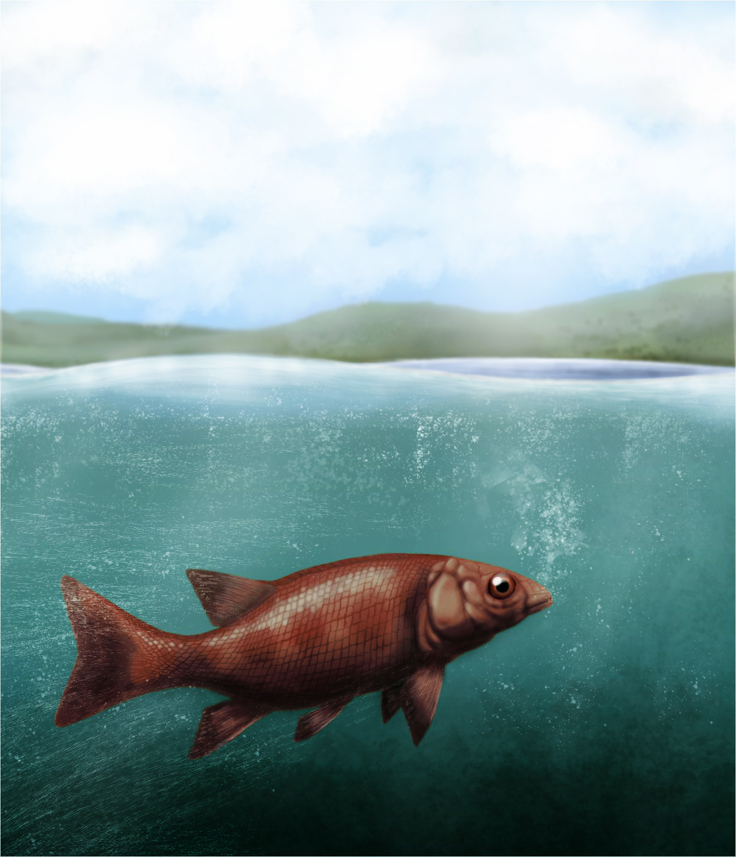 Life restoration of Semionotus elegans.